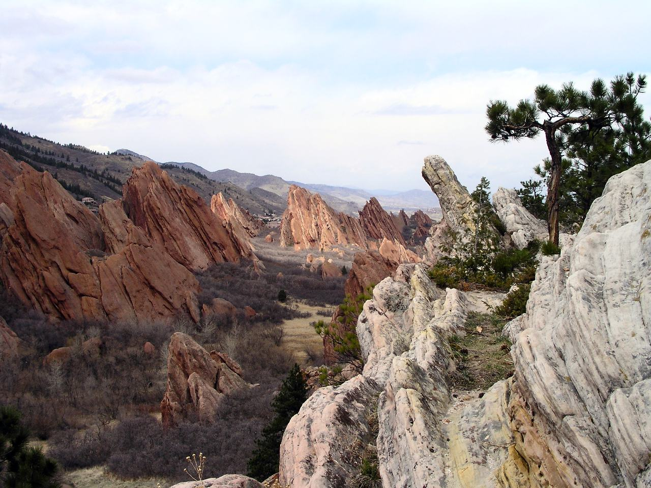 Tilted sandstone in Roxborough State Park, Colorado, USA